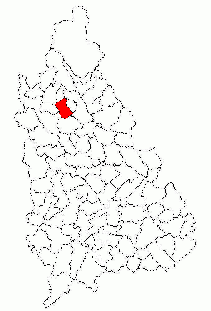 Locator map of Vulcana-Băi Commune in Dâmbovița County, Romania